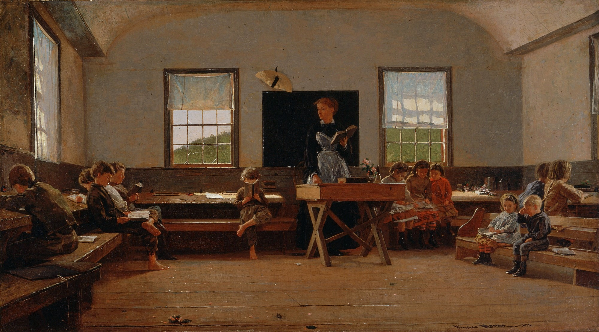 Alternate Titles: A Country School-room in the Catskills / New England Country School